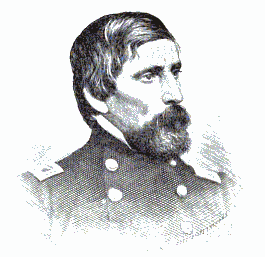 Etching of Brig. Gen. William Blaisdell of Massachusetts